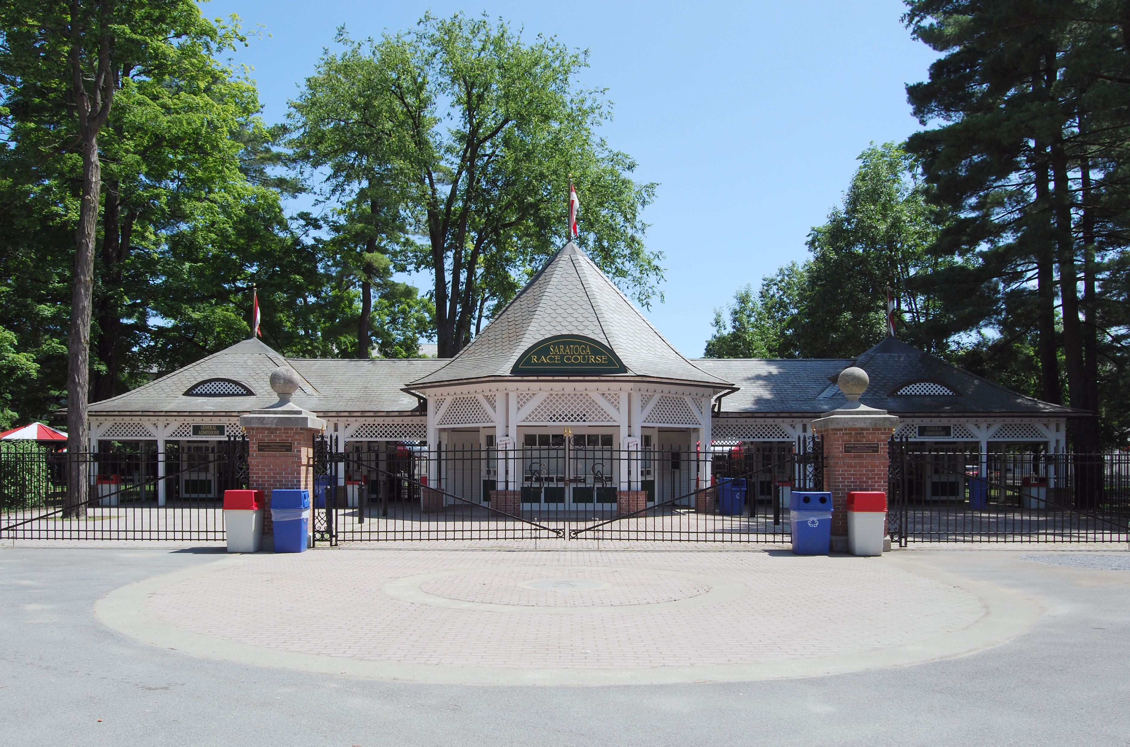 Entrance to Saratoga Race Course, located in Saratoga Springs, New York, United States, is the oldest organized sporting venue of any kind in the United States.